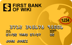 Sample American Express-type credit card featuring the Card Security Code on the front (circled in red).